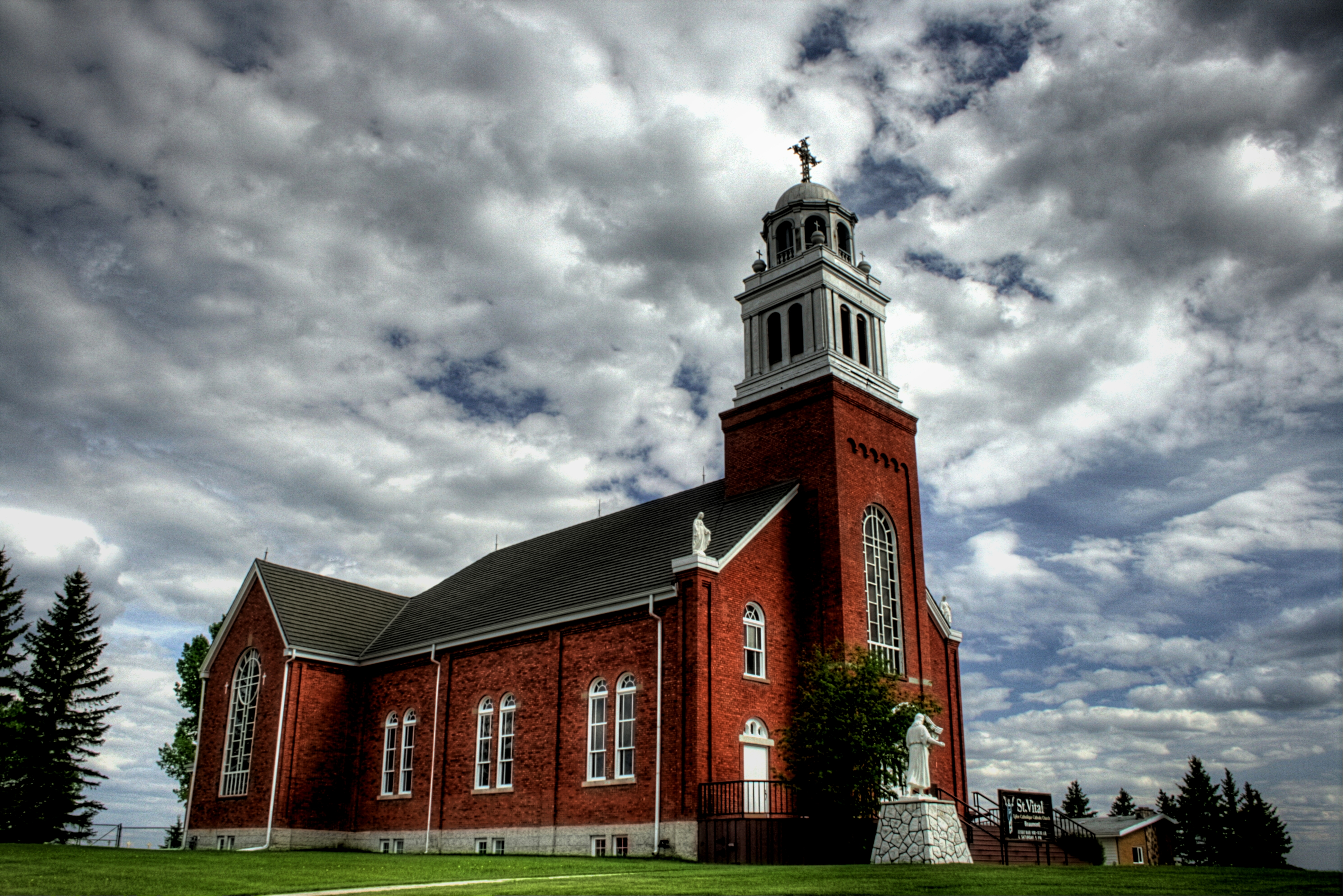 Saint Vital Roman Catholic Church in Beaumont, Alberta, Canada.